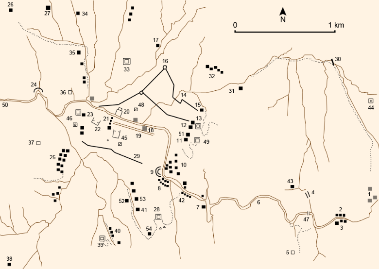 Map of the Petra archaeological site — in Jordan.